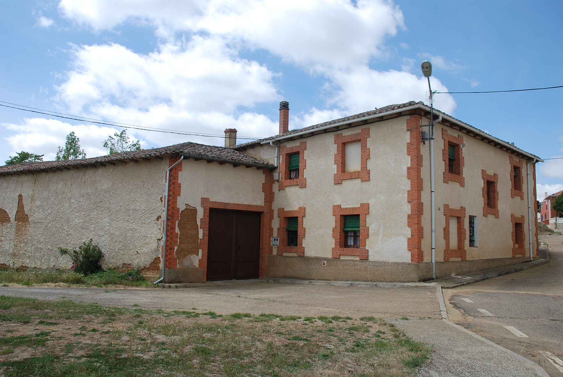 Hijosa de Boedo (Palencia, Castile and León).